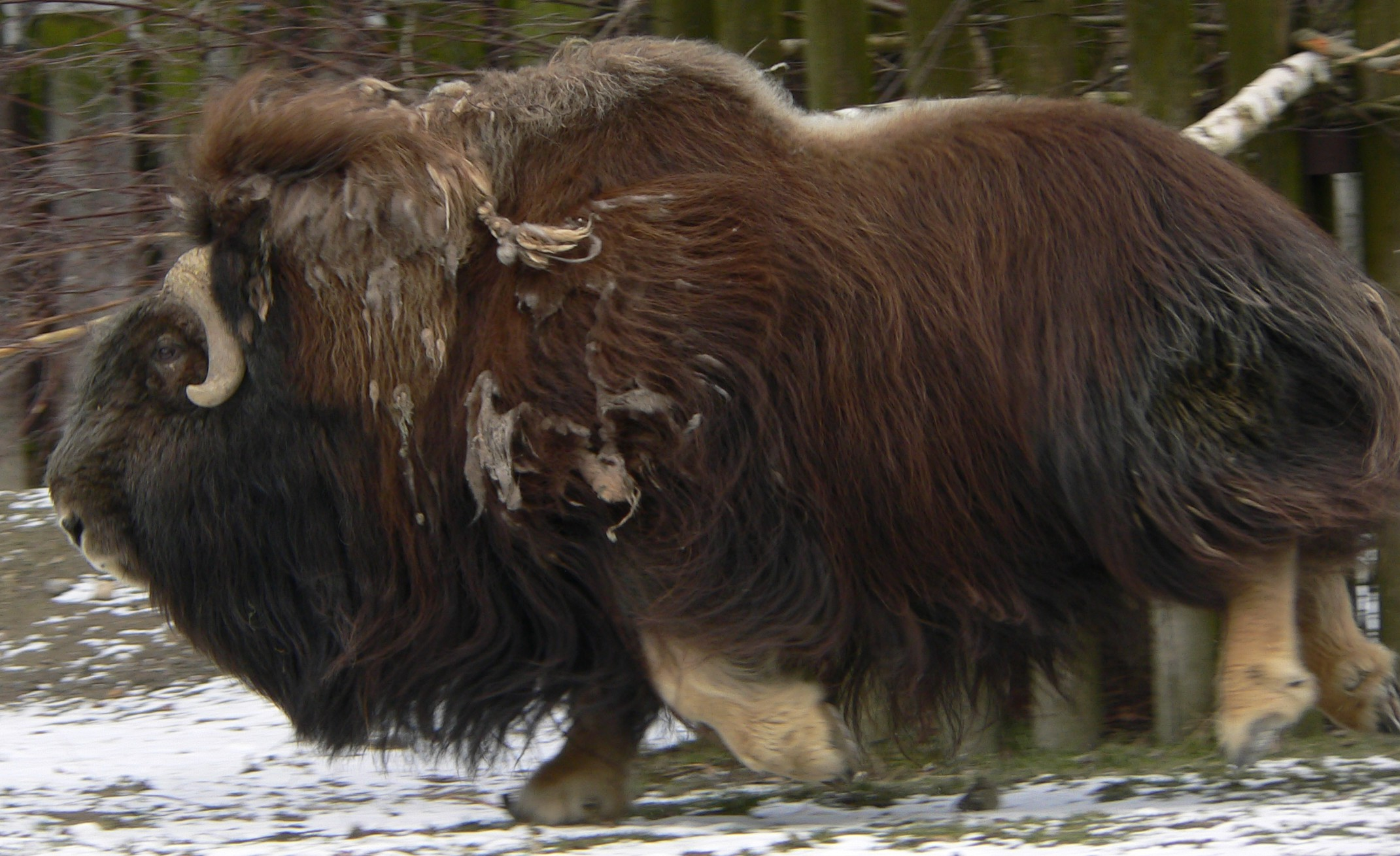 Muskox (Ovibos moschatus) attacking. Koelner Zoo, Cologne.